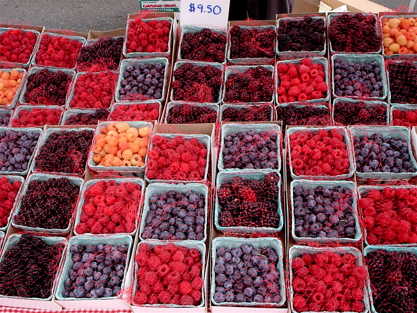 Berries for sale at a farmers market in Santa Monica, California, United States